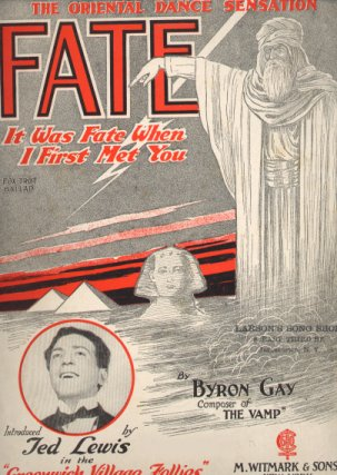 Fate "It Was Fate When I First Met You" sheet music cover, 1922. Has photo of bandleader Ted Lewis.